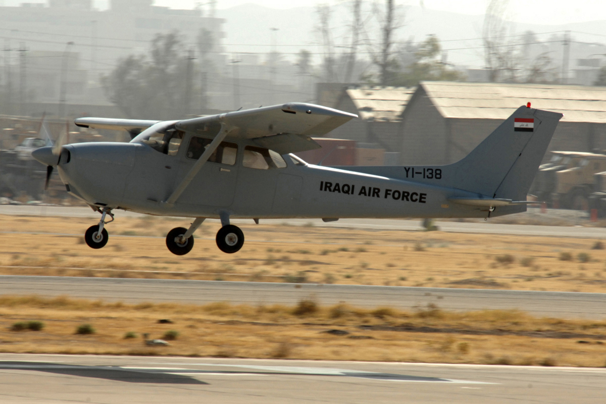 Capt. Jamie Riddle, a 52nd Expeditionary Flying Training Squadron instructor pilot, and 2nd Lt. "Joseph," an Iraqi air force student pilot, land their Cessna 172 July 13 at Kirkuk Regional Air Base, Iraq, after surpassing 2,000 flying hours for the Iraqi air force. The 52nd EFTS' mission is to train, educate and advise the Iraqi air force to build an institutional capacity to conduct credible fixed- and rotary-wing flight training for the future. Captain Riddle is deployed from Columbus Air Force Base, Miss.